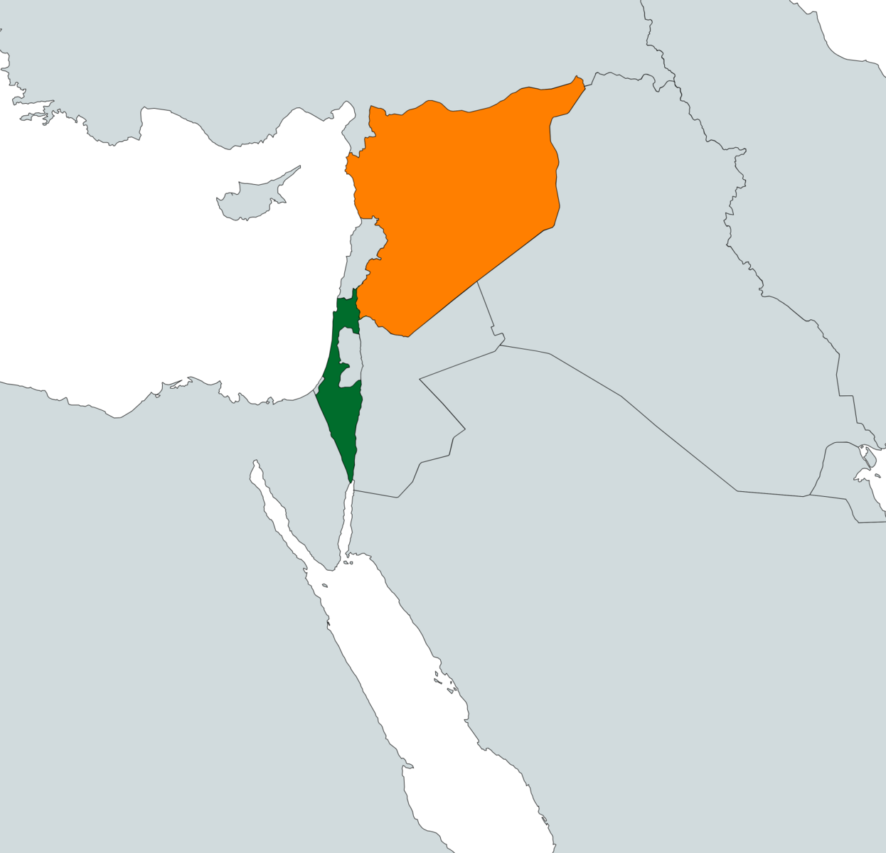 Israel-Syria locator